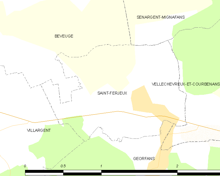 Map of French municipality